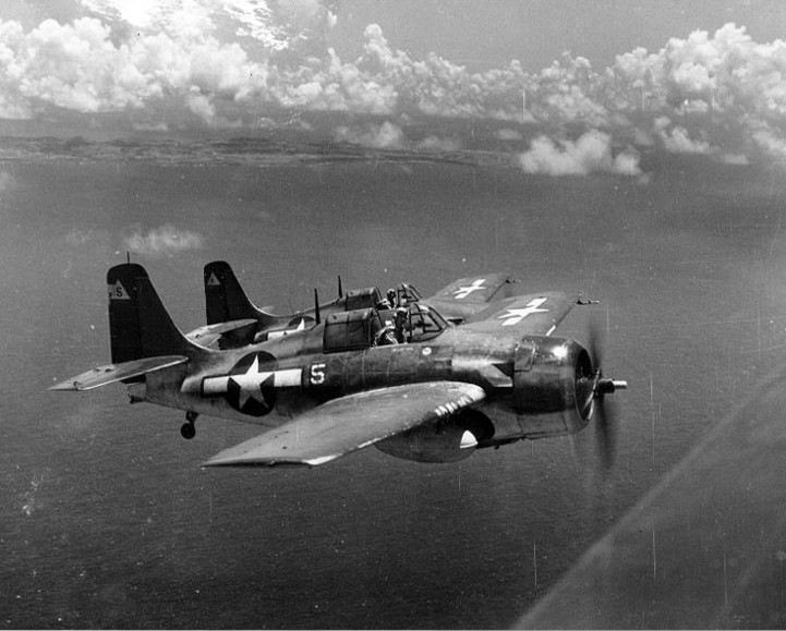 U.S. Navy General Motors FM-2 "Wildcat" fighters from the escort carrier USS White Plains (CVE-66) fly an escort mission, probably during air strikes on Japanese facilities on Rota Island, Marianas, 24 June 1944.